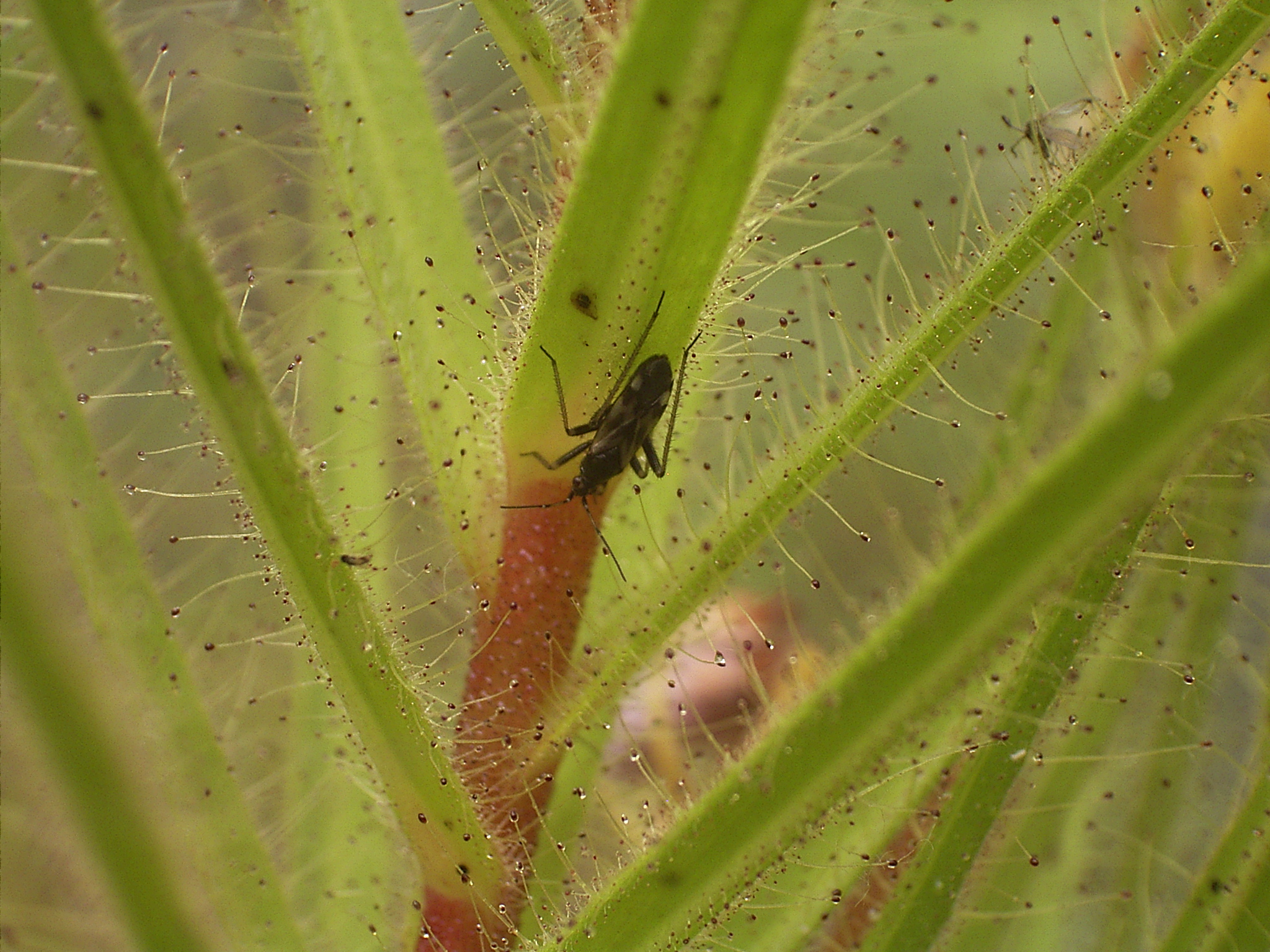 Pameridea roridulae Author Denis Barthel